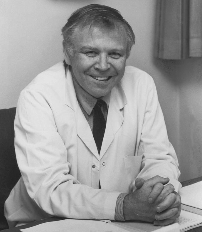 Professor Kjell Kleppe